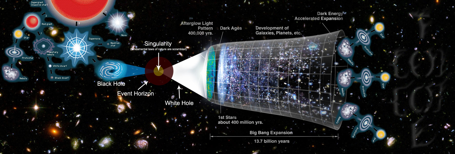 Cyclic progressions of the universe